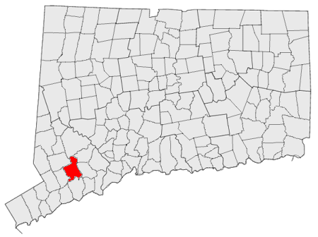 Locator map for Easton, Connecticut